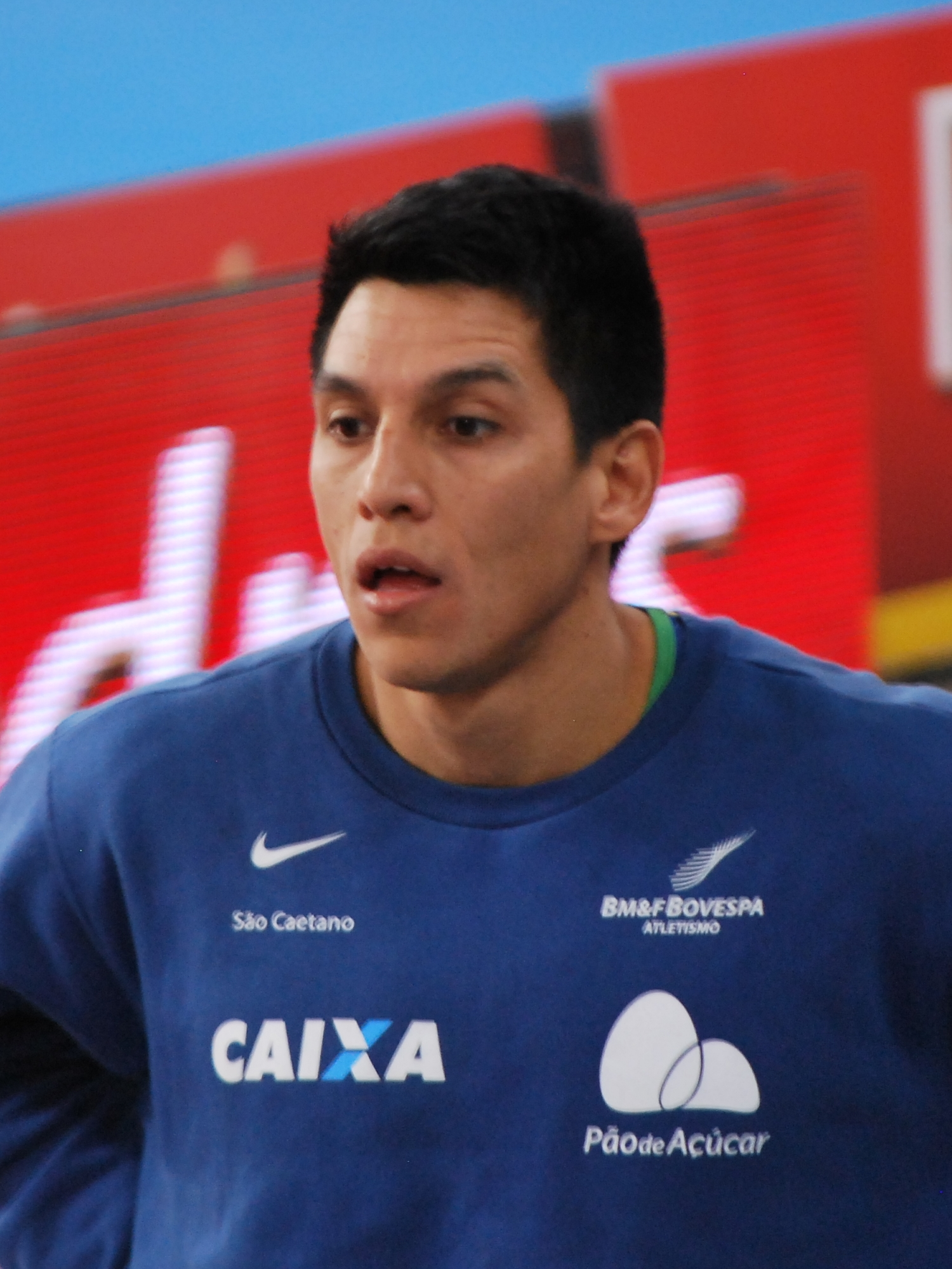 Pedros Cup 2015 Łódź, Fabio Da Silva, pole vaulter from Brazil